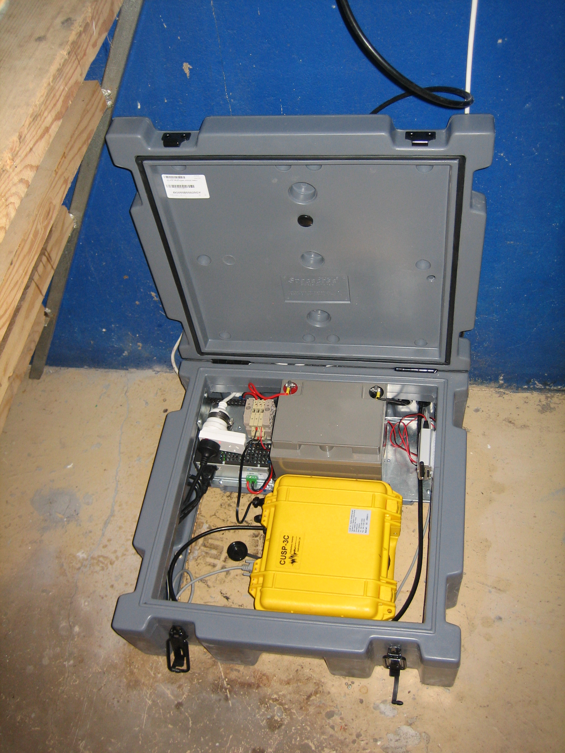 CUSP 3C accelerograph unit located in the basement of a residential building in Hveragerdi, Iceland. The unit itself is the yellow box and it is housed in a protective grey plastic casing. The unit is powered by a battery, which can be seen above the yellow unit.